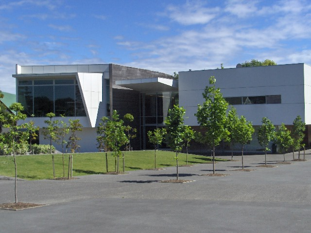 Photo of Kristin's LIC building, located in Kristin School on the North Shore of Auckland.